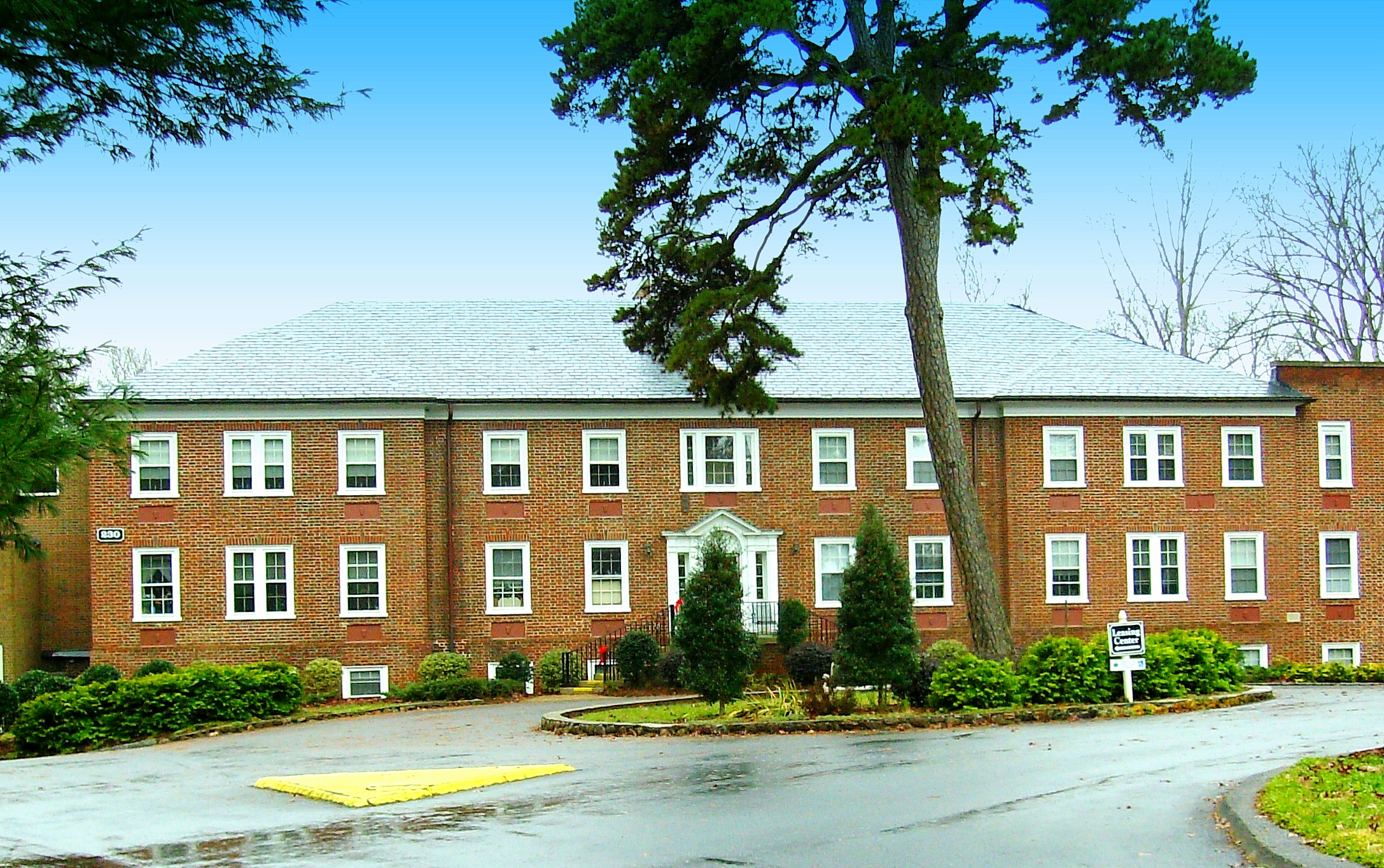 Hugh Chatham Memorial Hospital, (former)